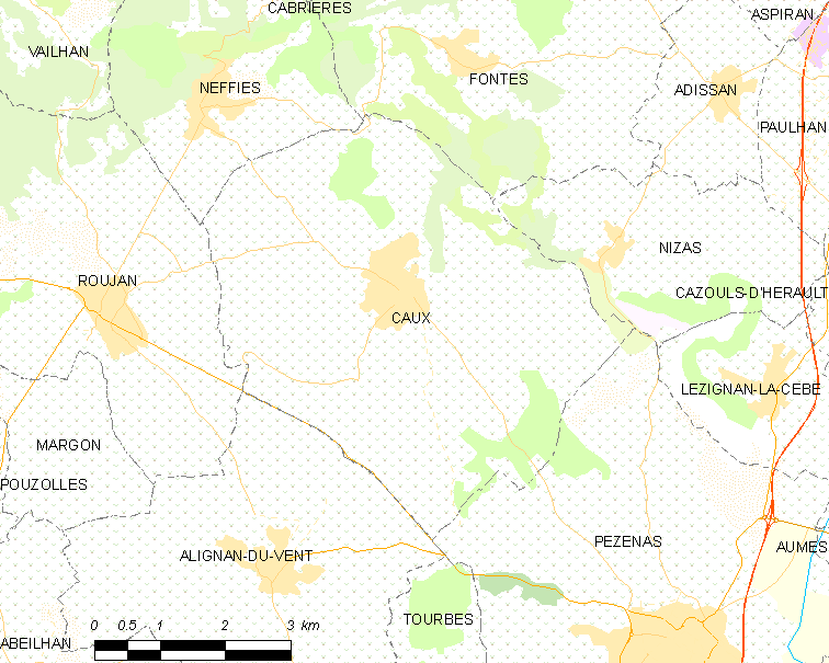 Map commune FR insee code 34063.png - Caux